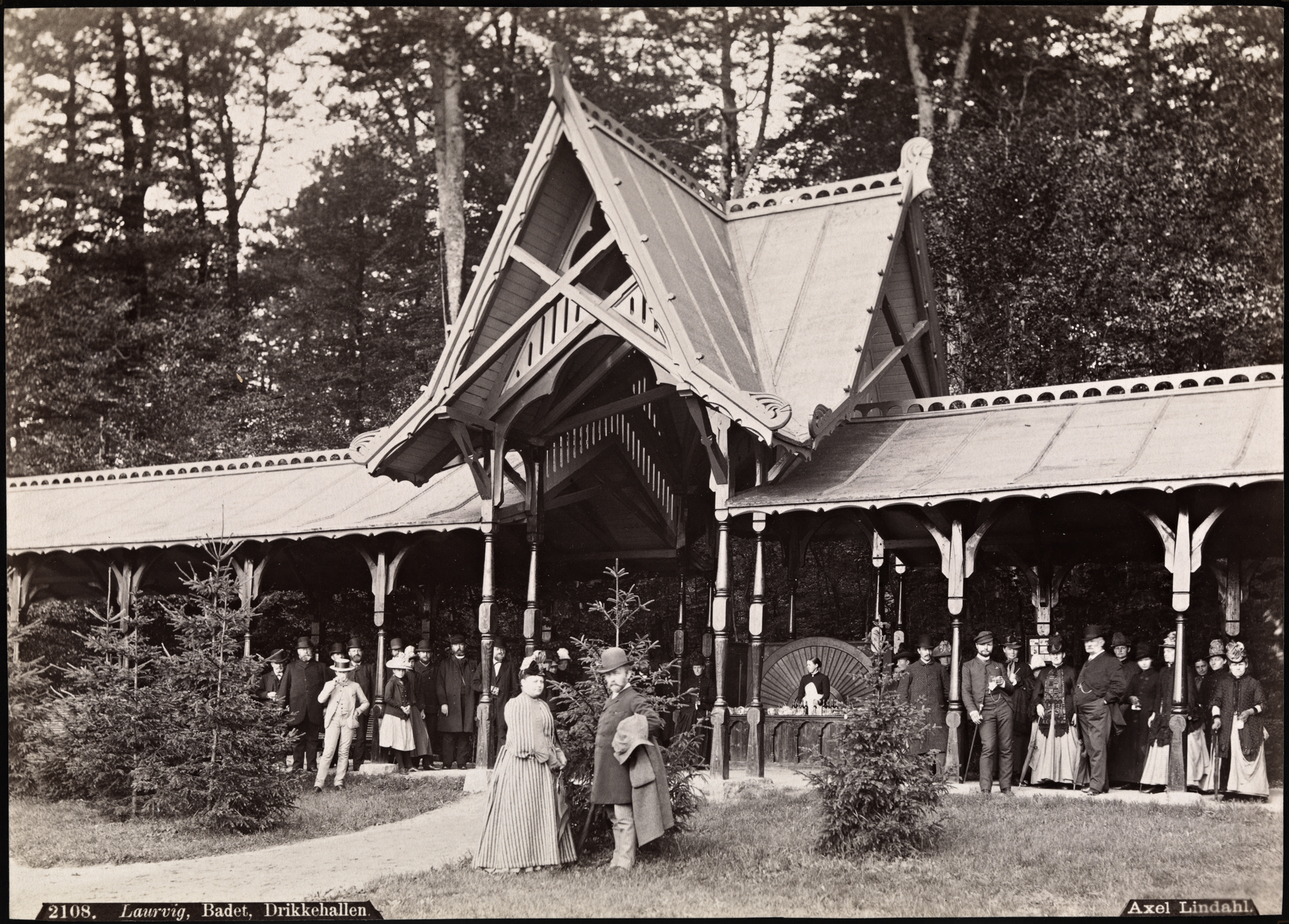 Tittel / Title: 2108. Laurvig, Badet, Drikkehallen Dato / Date: 1880-1890 Fotograf / Photographer: Axel Lindahl (1841-1906) Sted / Place: Vestfold, Larvik, Nanset Eier / Owner Institution: Nasjonalbiblioteket / National Library of Norway Lenke / Link: Bildesignatur / Image Number: bldsa_AL2108